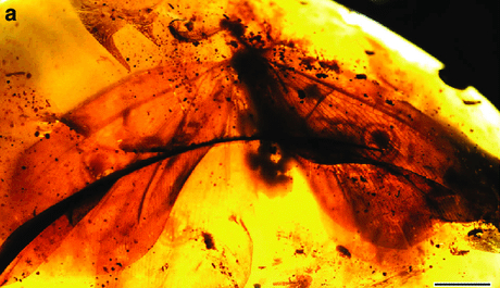 Burmogramma liui from late Cretaceous Burmese amber. a, Holotype NIGP164471, male, habitus Scale bar, 5 mm